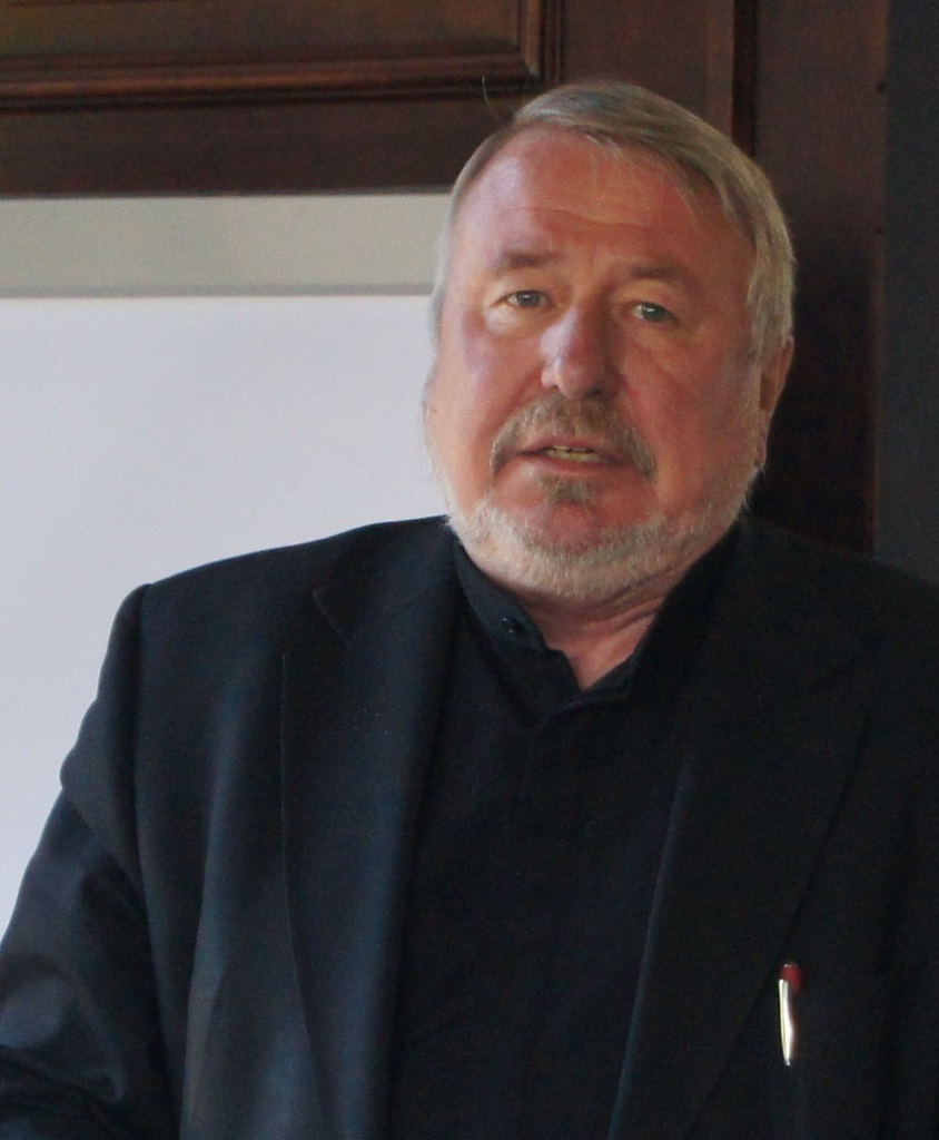 Georg Ruppelt, Braunschweig 2018